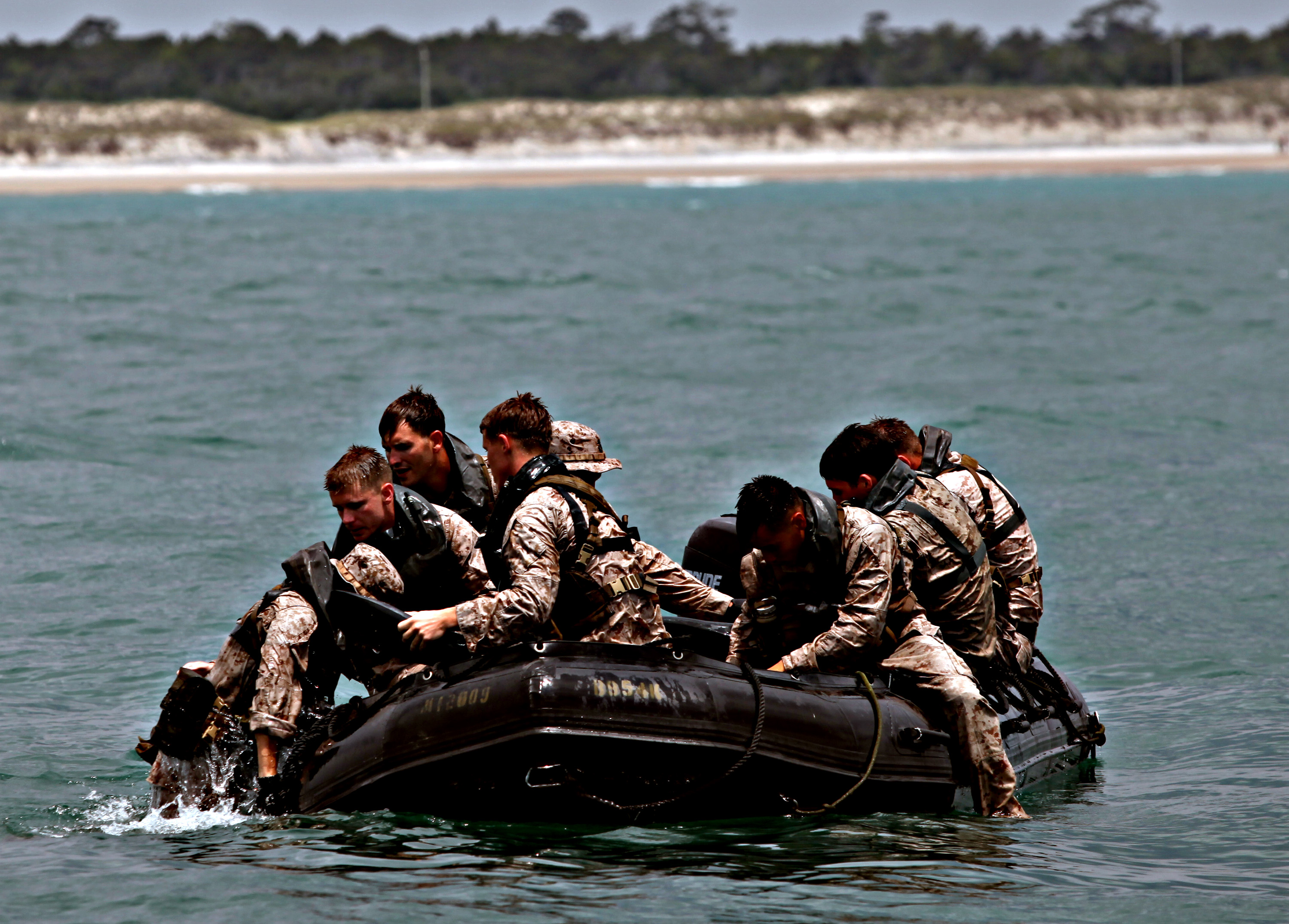 Marines with 2nd Reconnaissance Battalion, 2nd Marine Division; and Force Reconnaissance Company, 2nd Marine Expeditionary Force, pull their fellow Marine into a combat rubber raiding craft after jumping out of a CH-53 helicopter aboard Marine Corps Base Camp Lejeune, N.C., June 14, 2011. The purpose of the exercise was to train the Marines for amphibious operations.